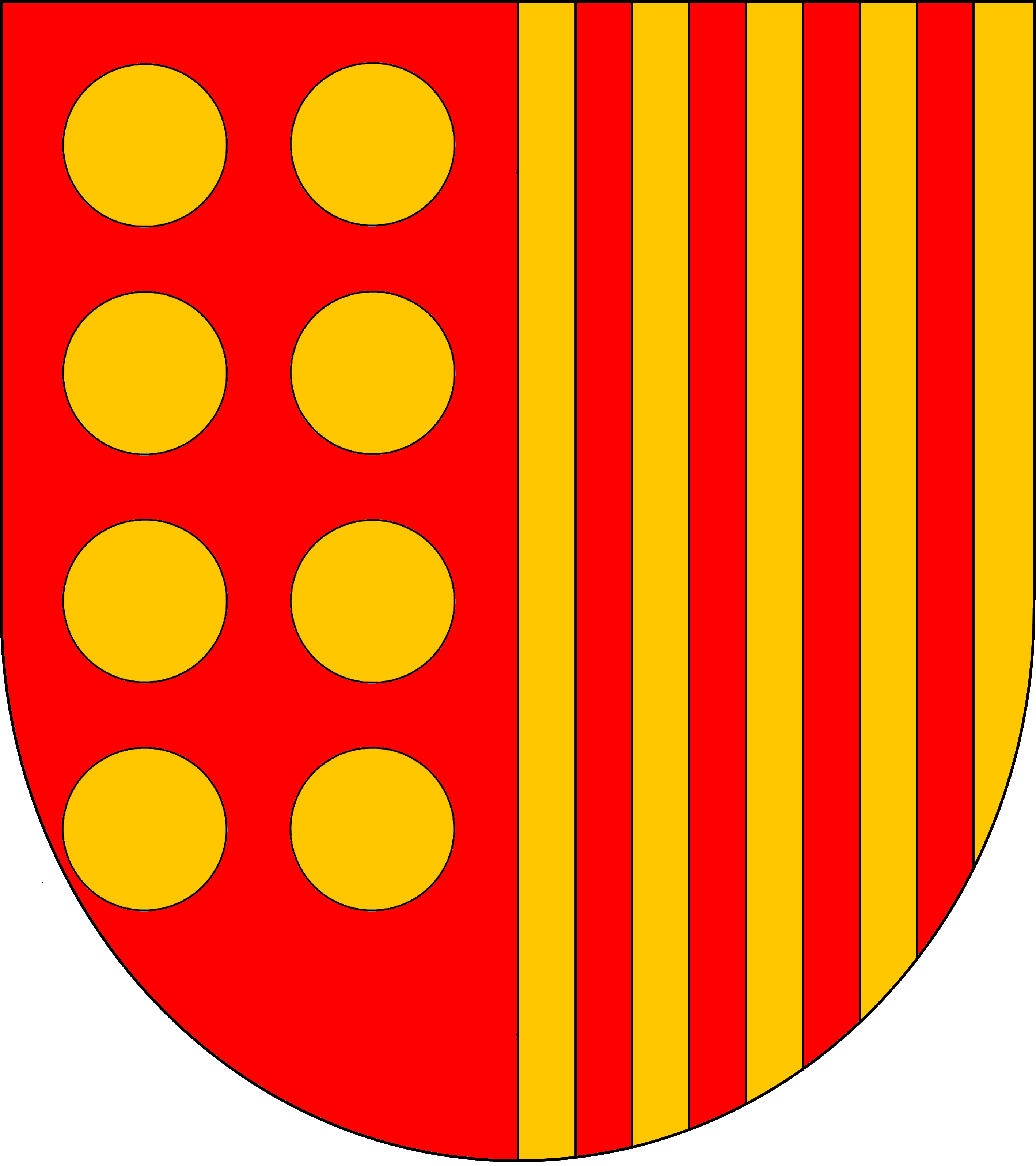 Escudo de Armas de la casa de Montcada en tiempos de Virreyes de de Sicilia